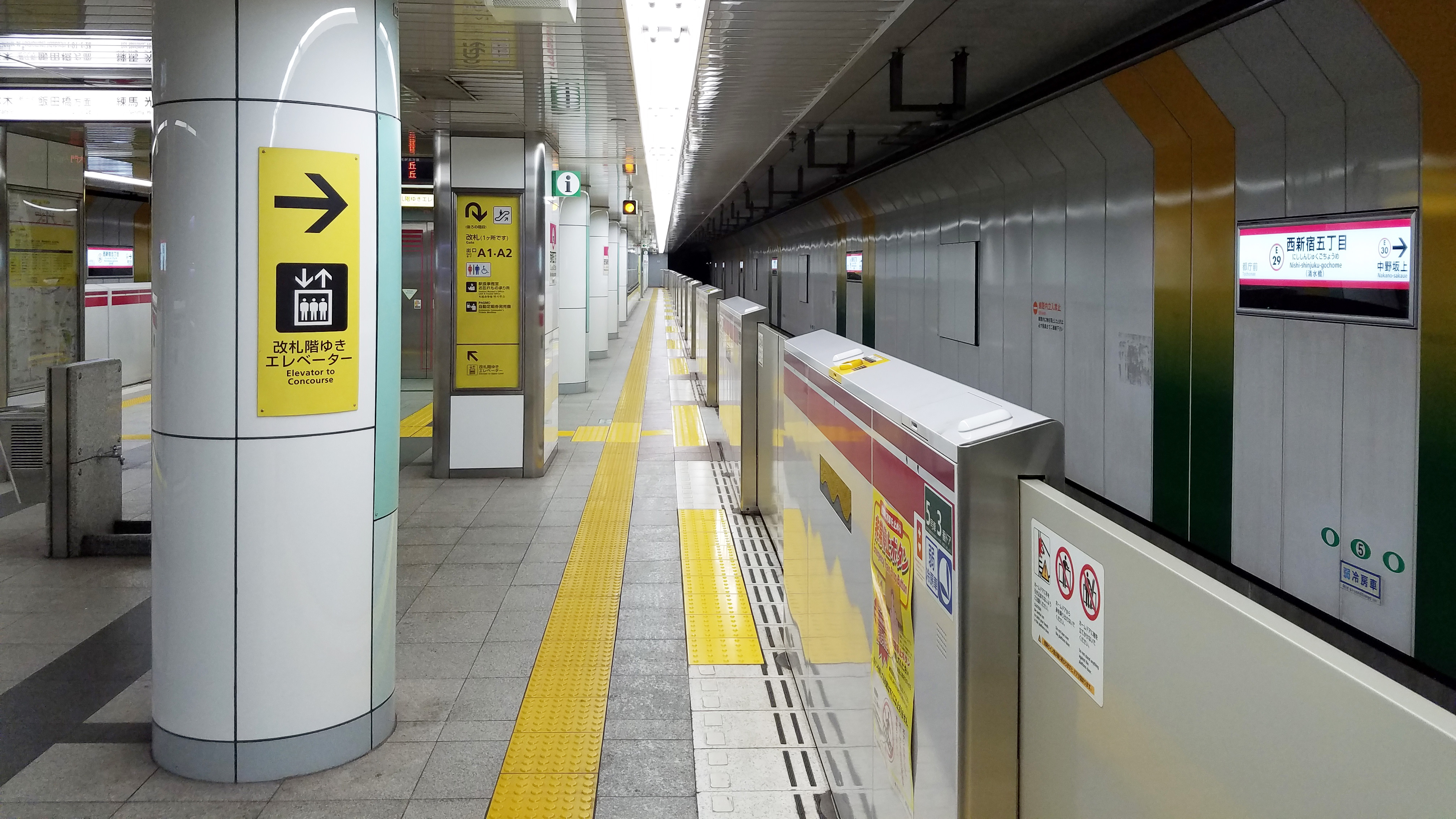 The platform at Nishi-Shinjuku-gochōme Station on the Toei Ōedo Line in Shinjuku city, Tokyo, Japan